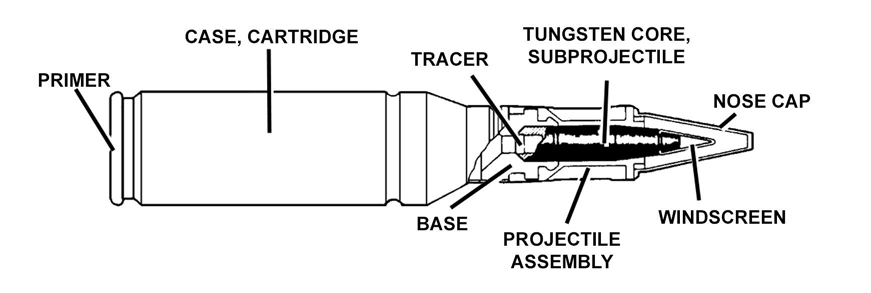 The M791 APDS-T 25mm round.